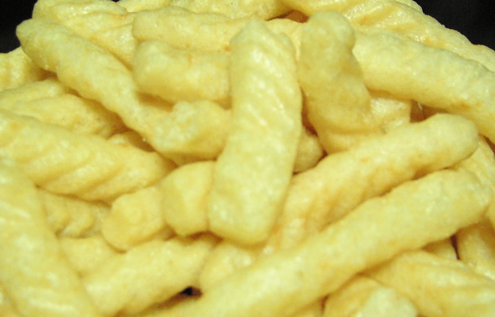 Kappa Ebisen made by Calbee Foods CO., LTD.